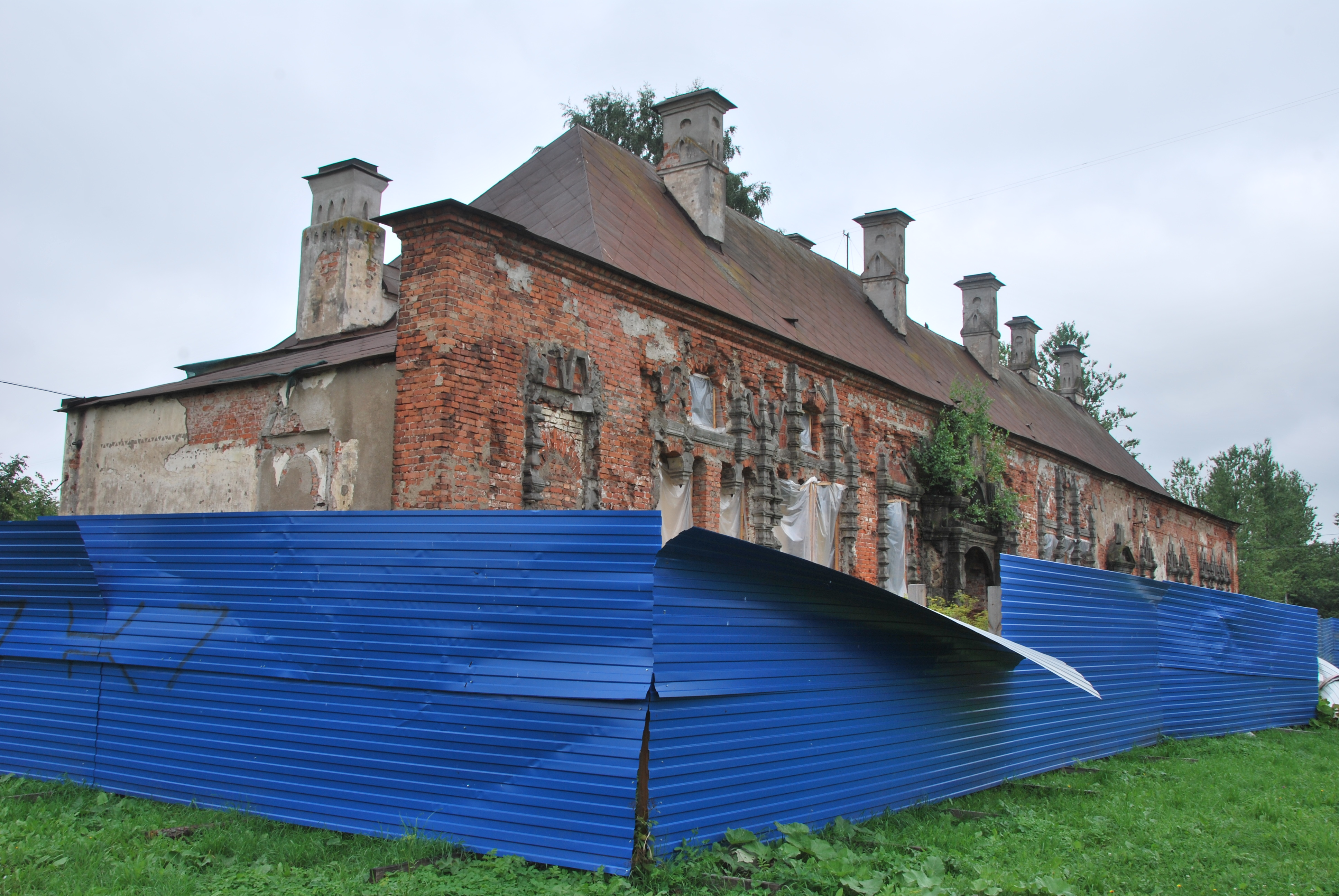 Ruins of Emperor railway station in Pushkin town